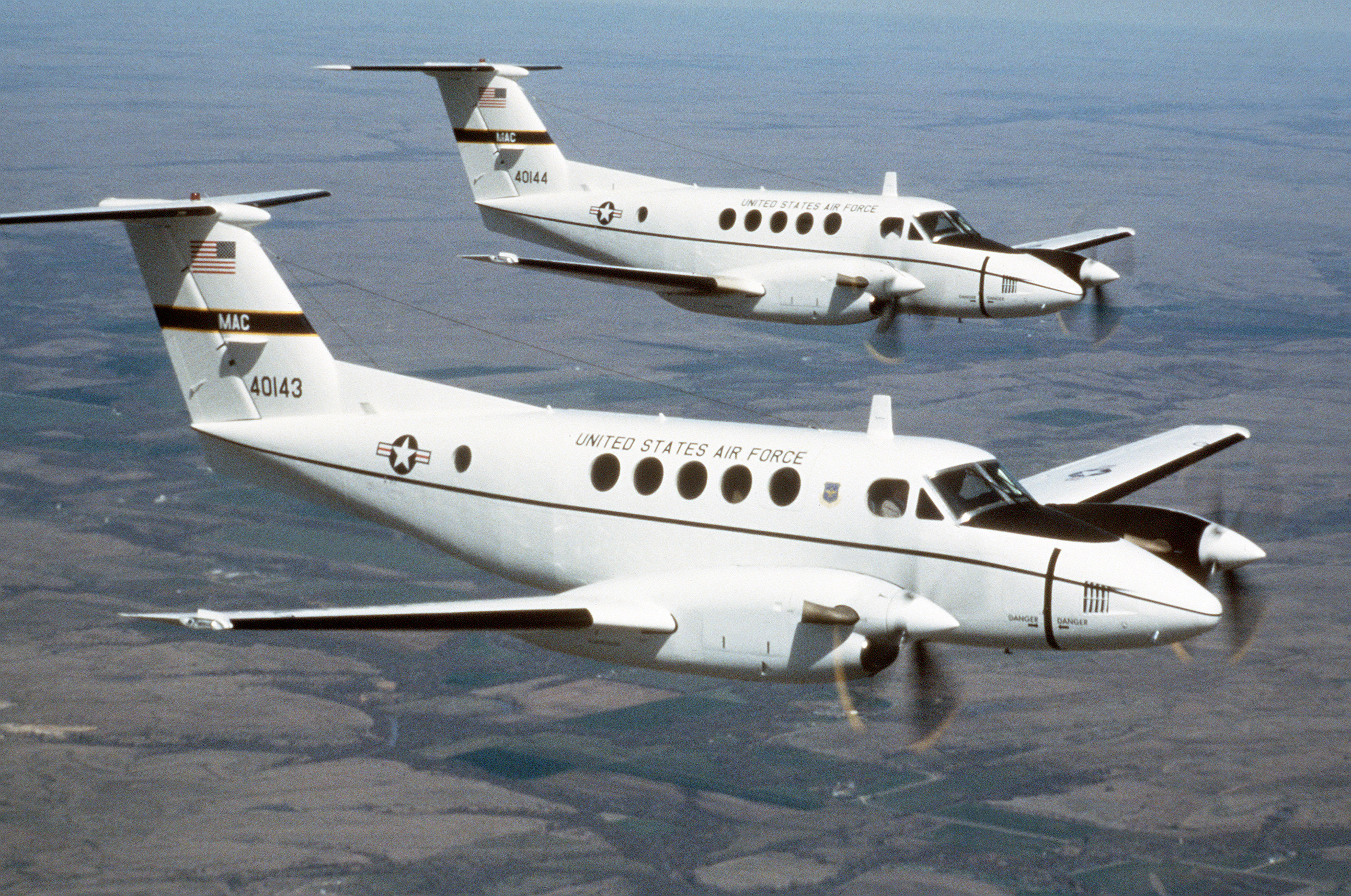 Air-to-air right side view of two C-12F operational support aircraft utilized by the Military Airlift Command (MAC)